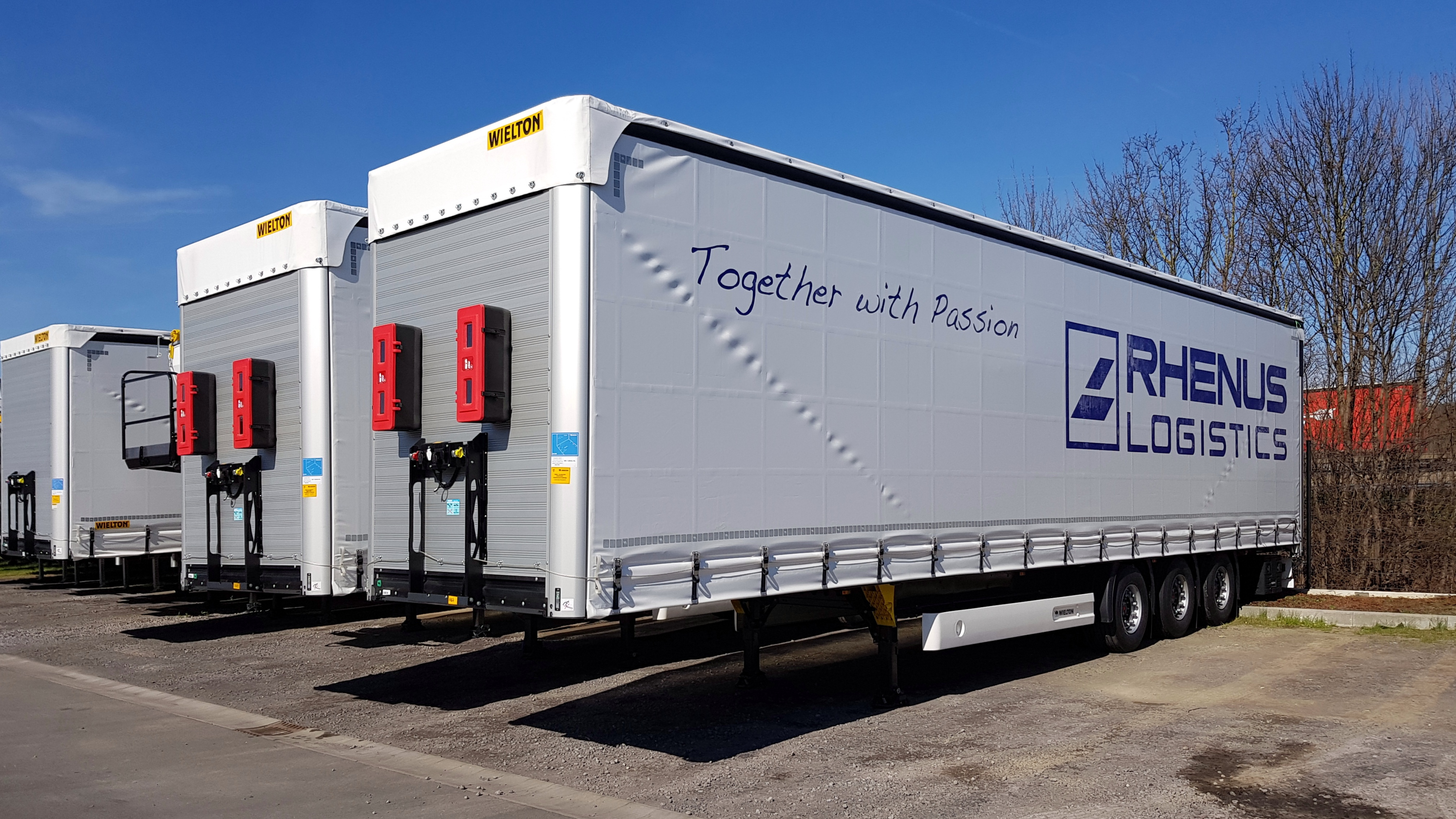 Trailer of the German logistics company Rhenus.